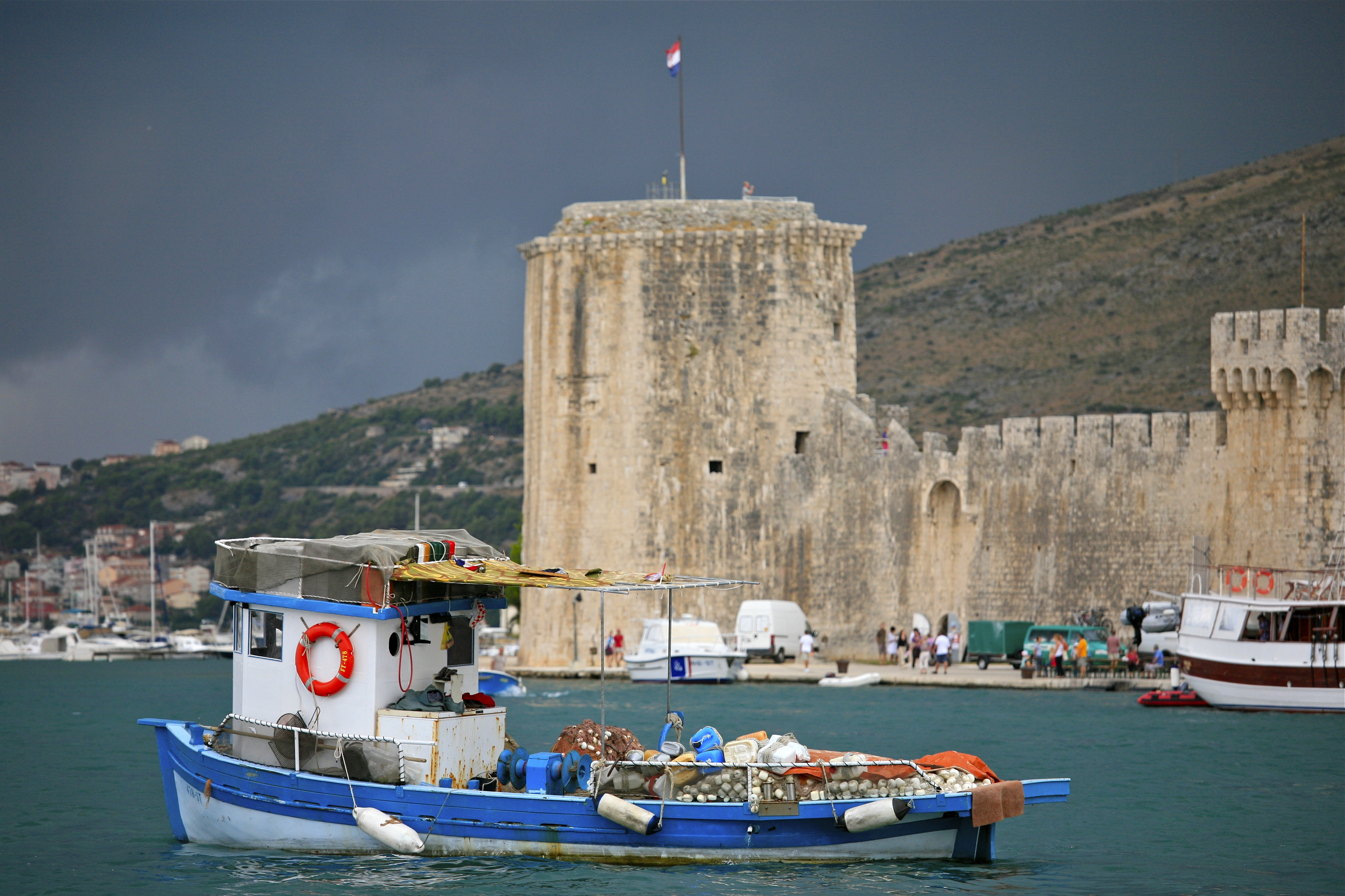 Kamerlengo Castle and the Fishing Boat